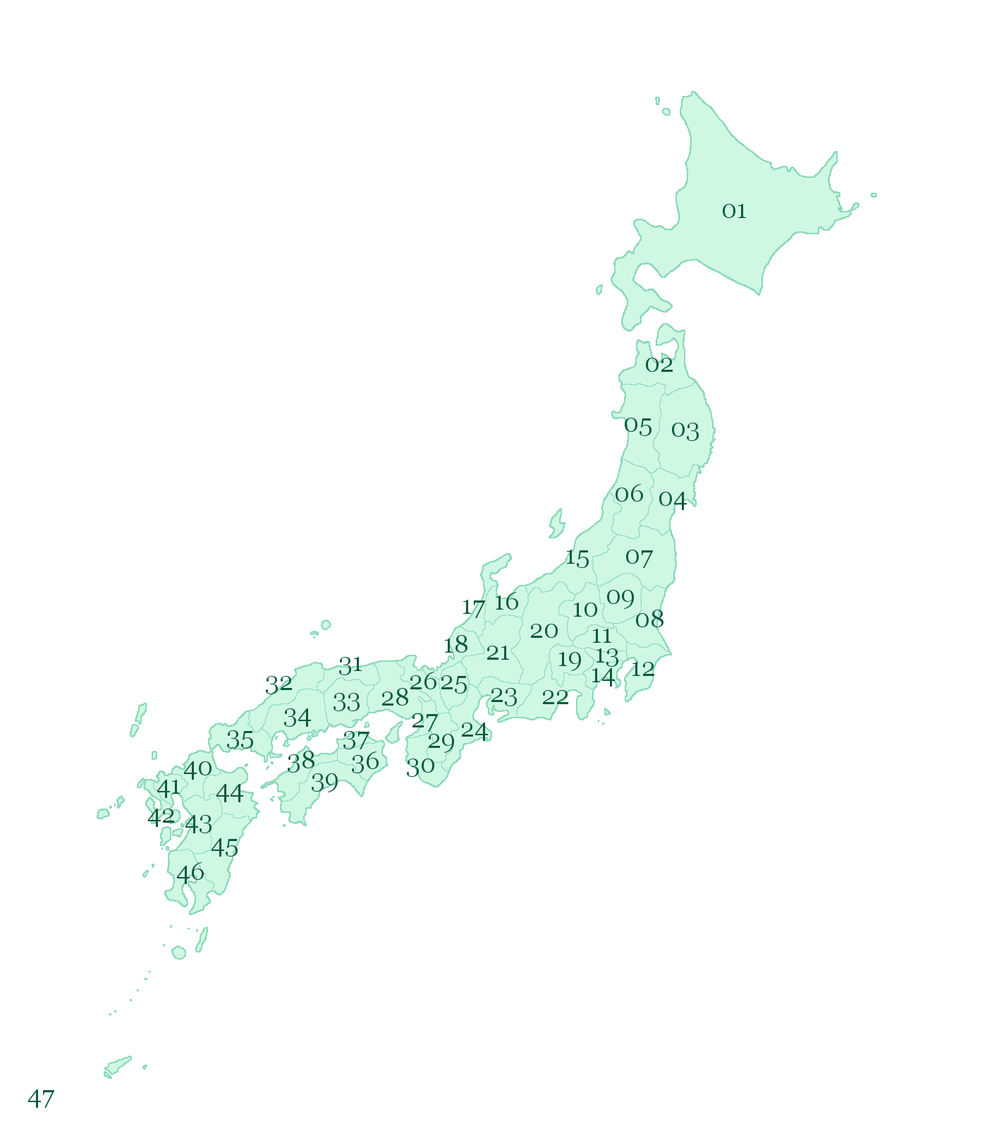 Map of Japan with ISO 3166-2:JP (JIS X 0401) prefecture code